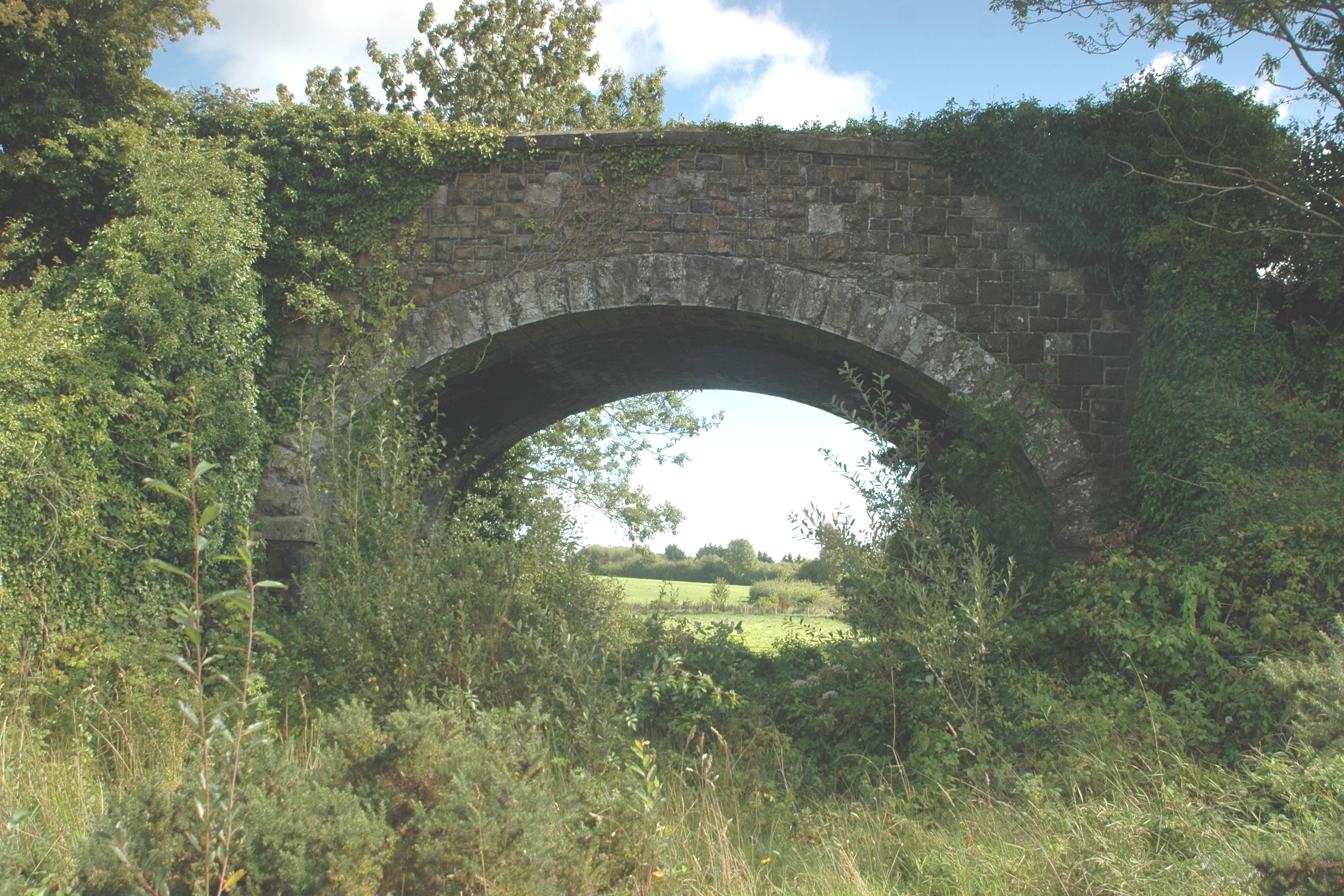 Road bridge over the trackbed of the former Portadown, Dungannon and Omagh Railway at Annaghmore former railway station, opened in 1858